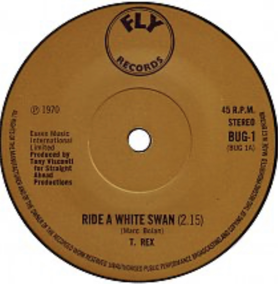 T-Rex on Fly Records